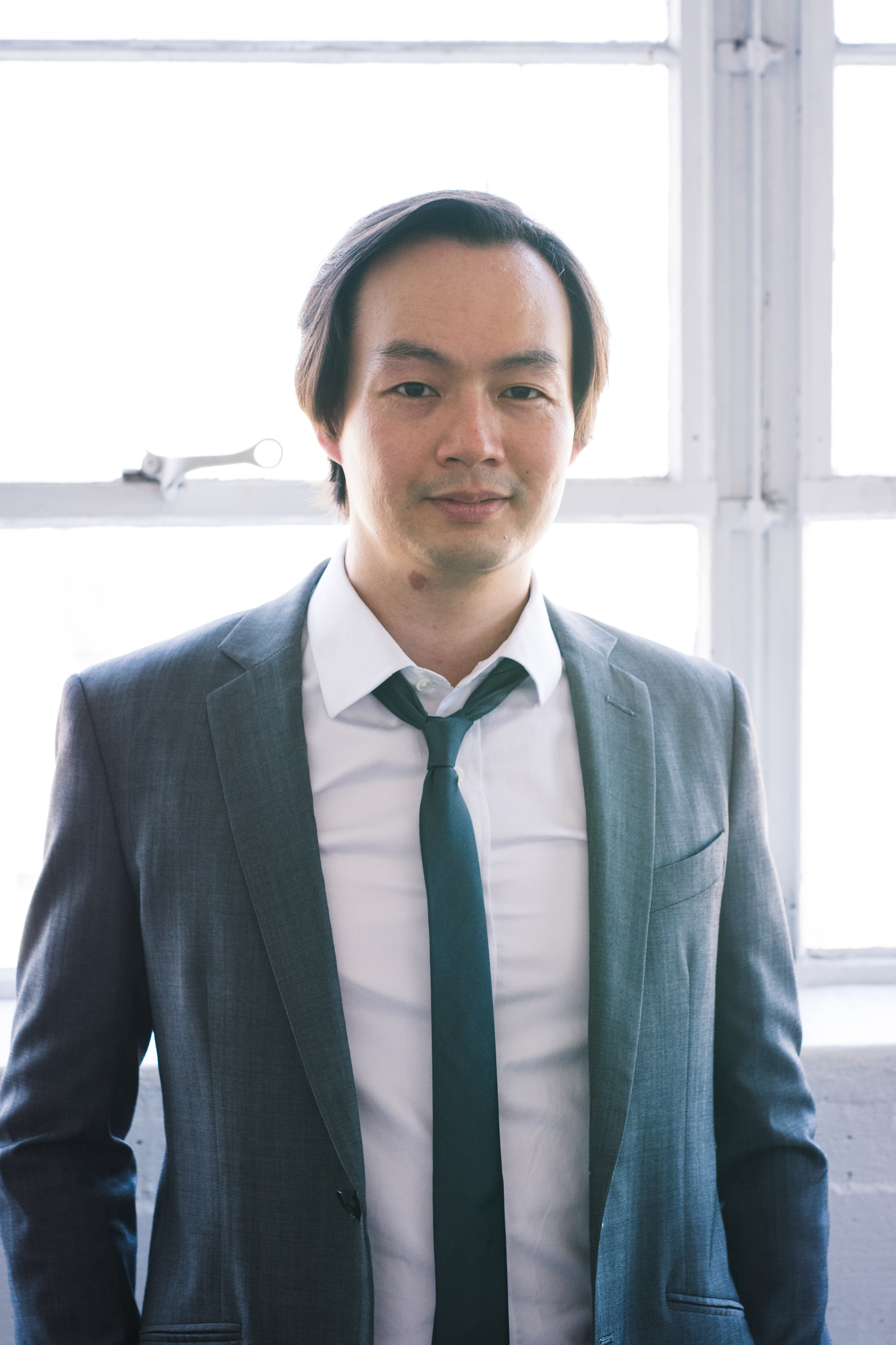 Headshot MCU by Window